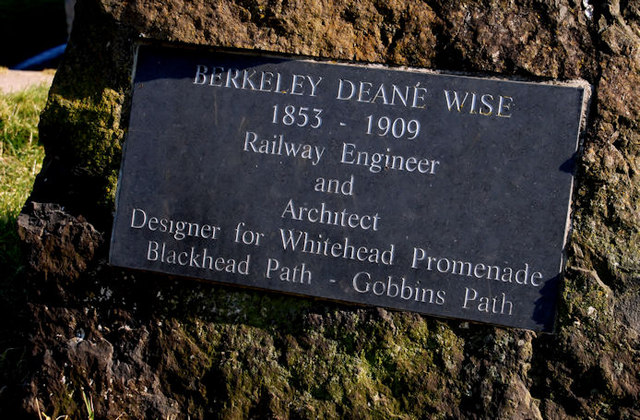 Berkeley Deane Wise plaque, Whitehead. Self-explanatory plaque near here 1337582 commemorating Berkley Deane Wise architect and civil engineer to the Belfast and Northern Counties Railway. He also designed Carrickfergus station 386761.